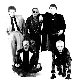 Banda